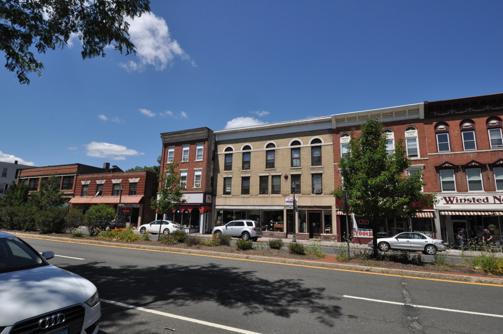 West End Historic District, Winsted, Connecticut. Western section of the district.